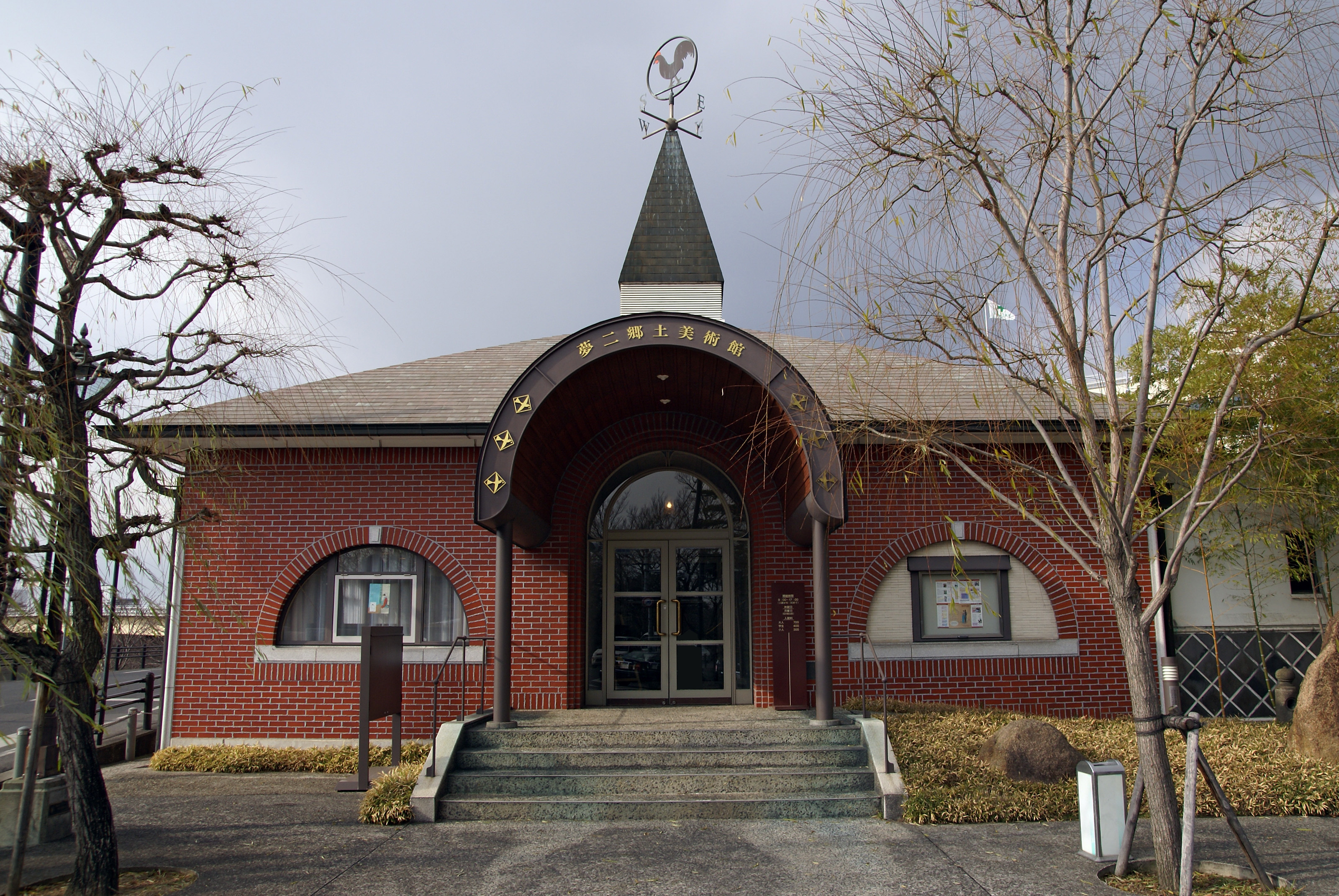 Yumeji Art Museum in Okayama, Okayama prefecture, Japan